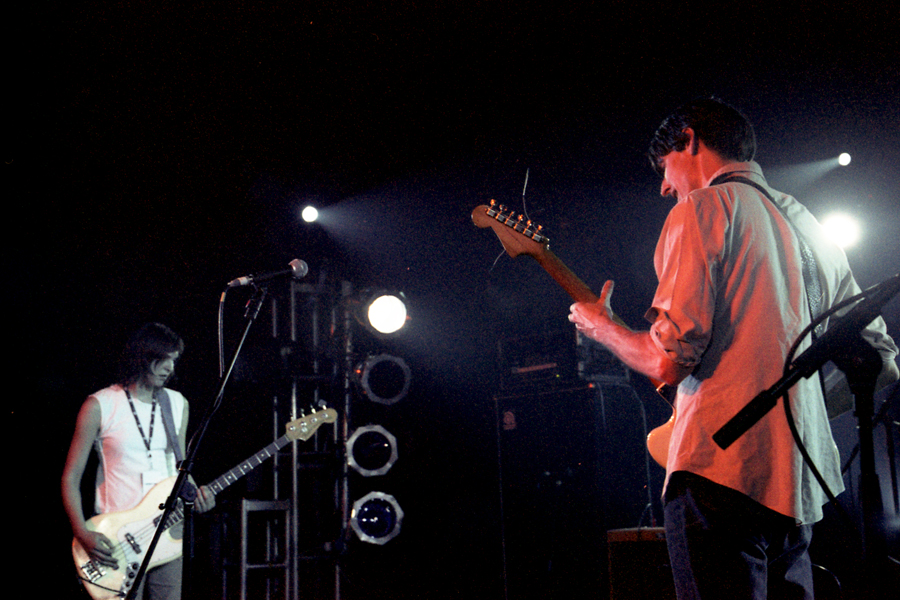 Stephen Malkmus and the Jicks live at All Tomorrow's Parties Festival in the UK, 2004, Weekend 2